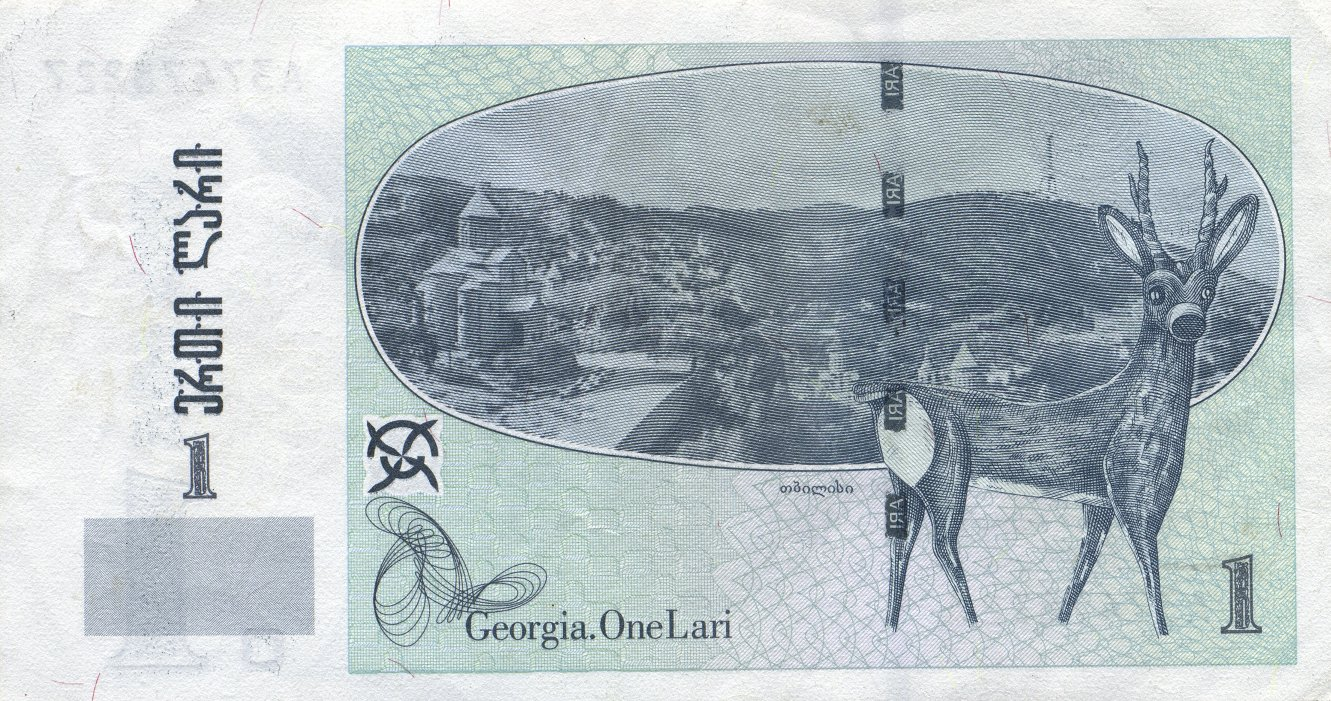 1 Georgian lari (Reverse)